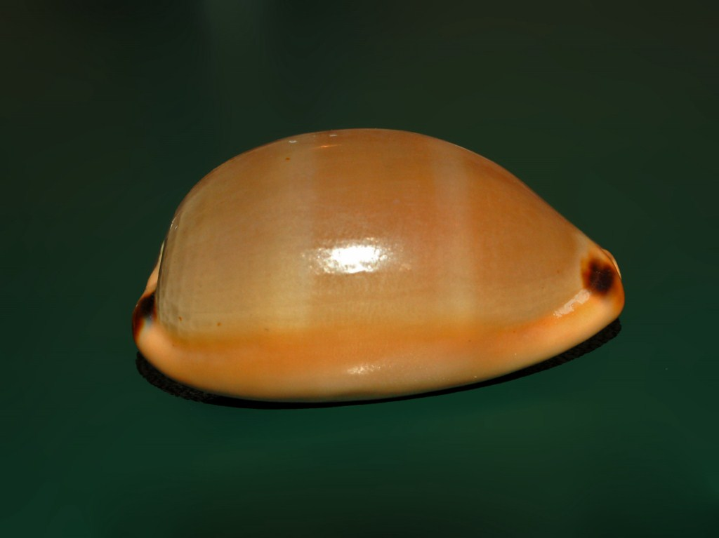 Luria lurida - Sicily